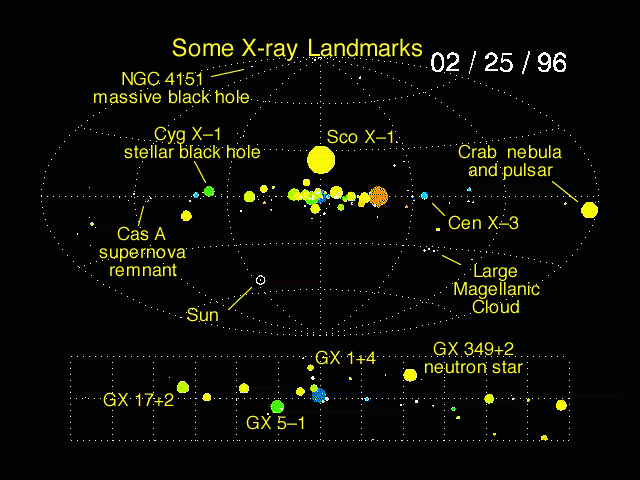 An image taken from the ASM Video animation. This frame highlights the variety of objects seen in the video, including x-ray binaries, supernova remnants, and active galaxies. The rectangular image is a magnification of the center of our Milky Way galaxy, which has a high density of X-ray stars.